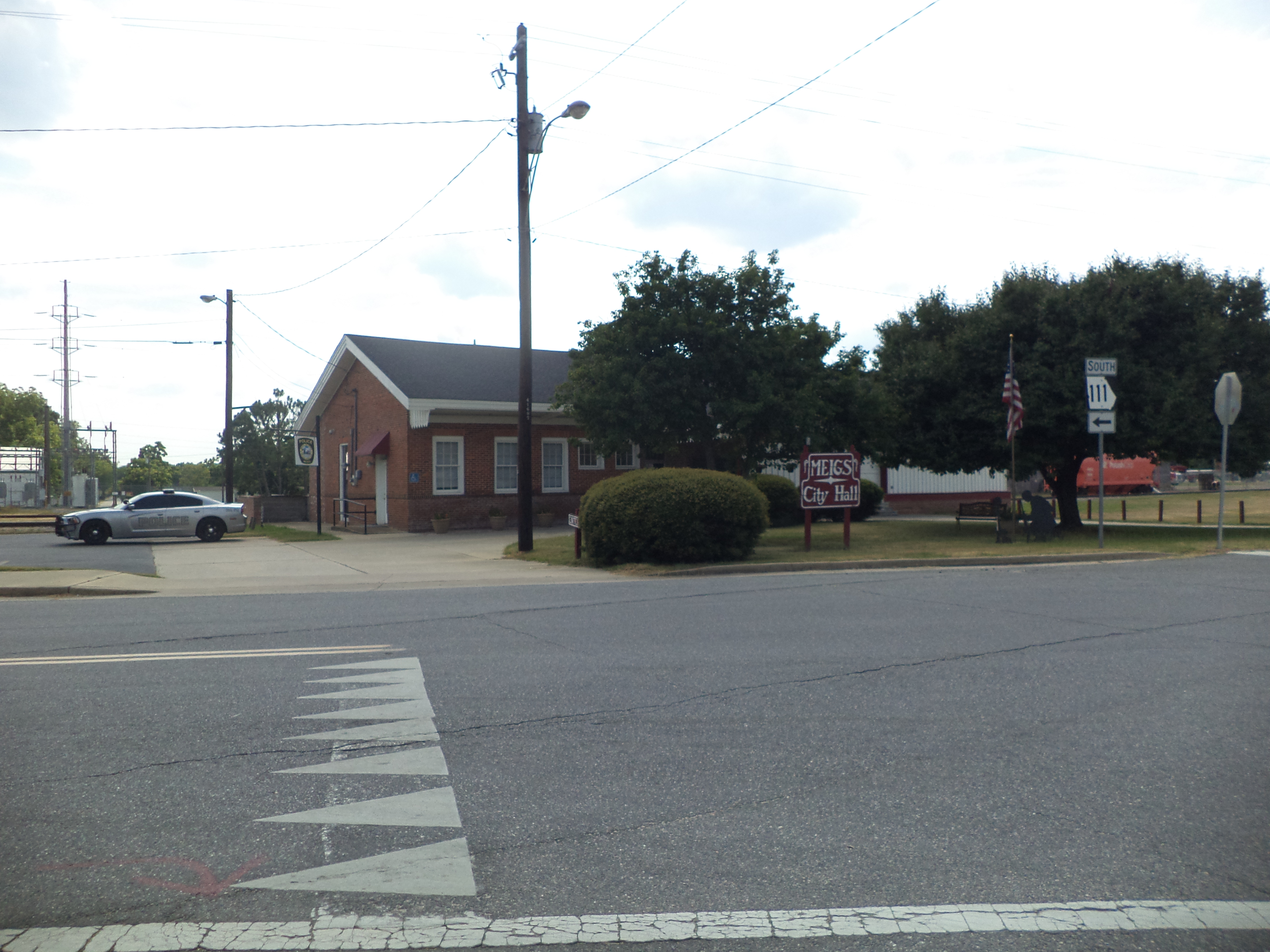 Meigs City Hall, Police Station, 1006 Depot St, Meigs, Thomas County, Georgia